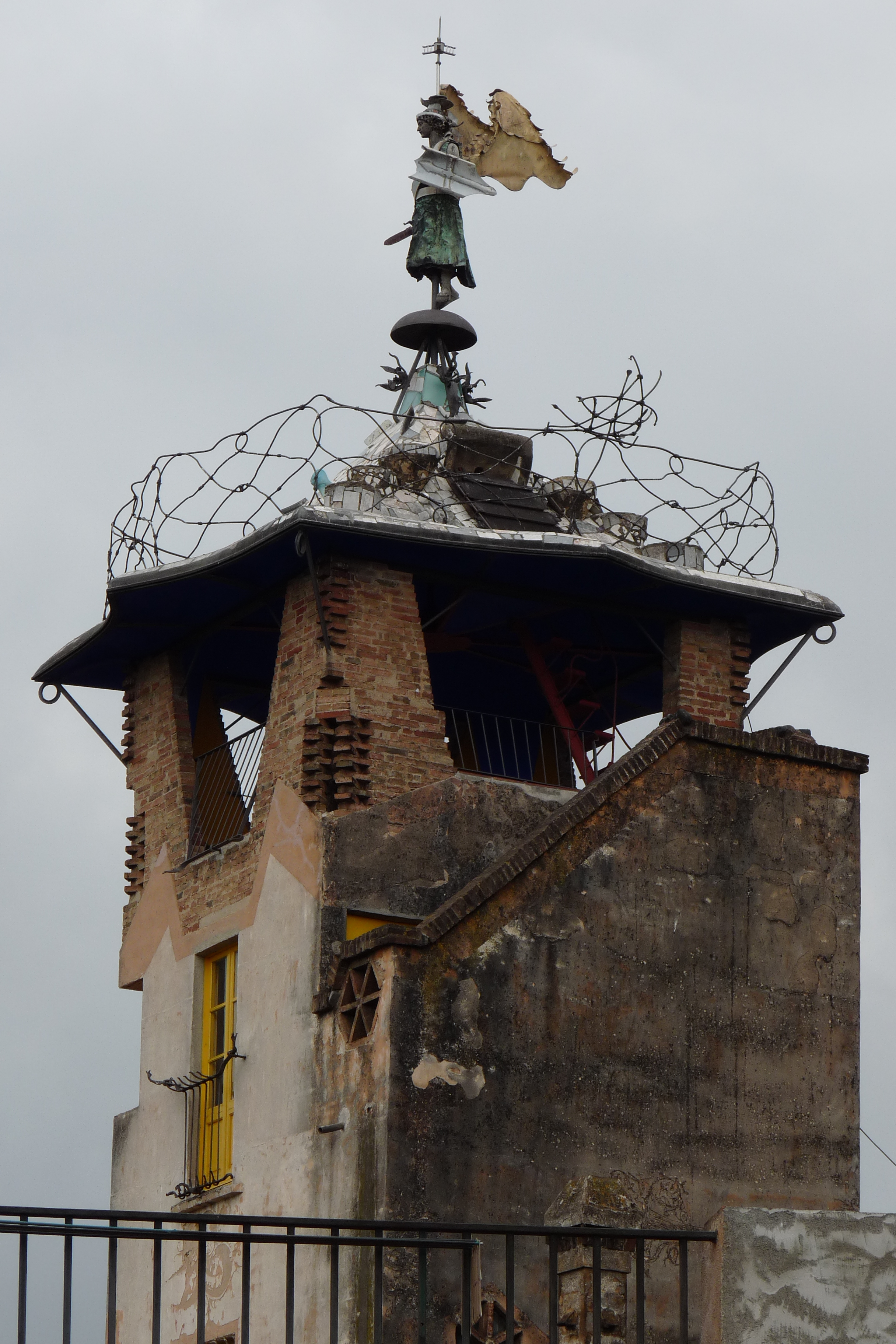 Tower of Casa Bofarull, els Pallaresos. Josep Maria Jujol's work.